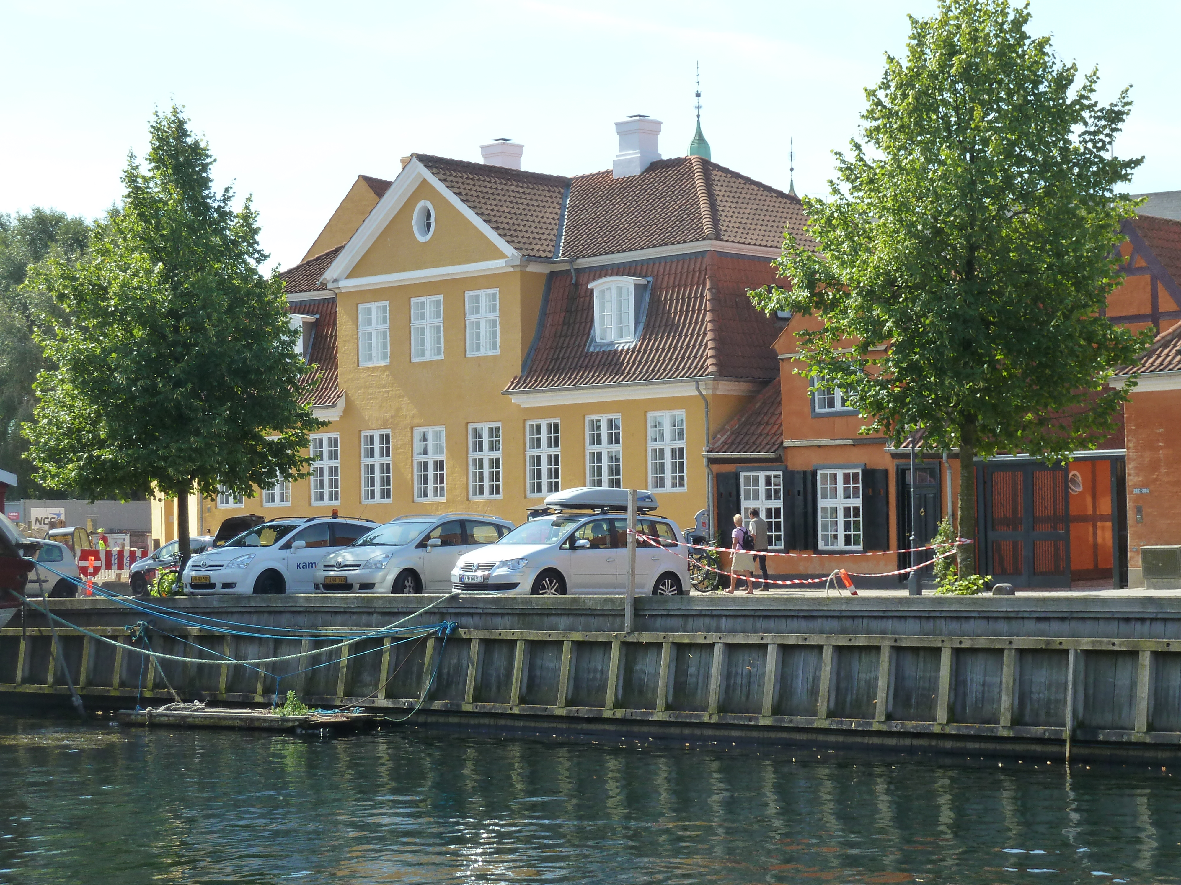 Materialforvalterboligen - part of Fæstningens Materielgård - seen across Frederiksholms Kanal in Copenhagen, Denmark